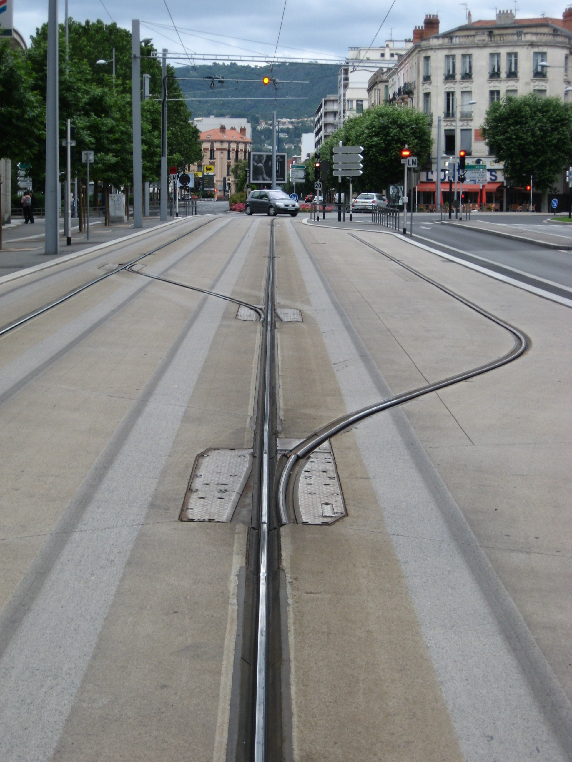 Points for the guided "tram" on rubber wheels. The rails are used for guidance and the return current.